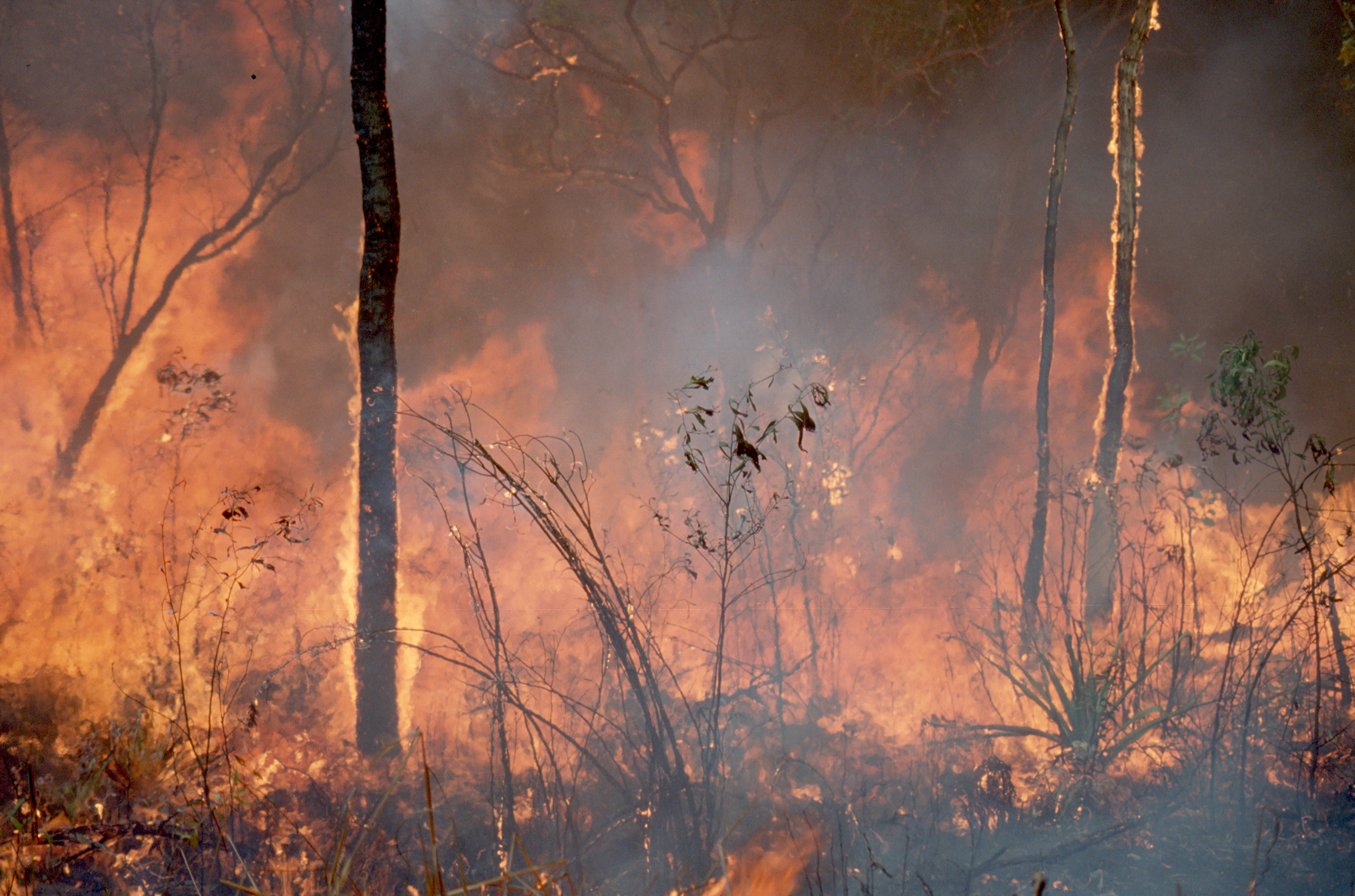 Fire is a natural part of the Top End environment. The challenge is to gain a better understanding of it, and to manage it wisely.